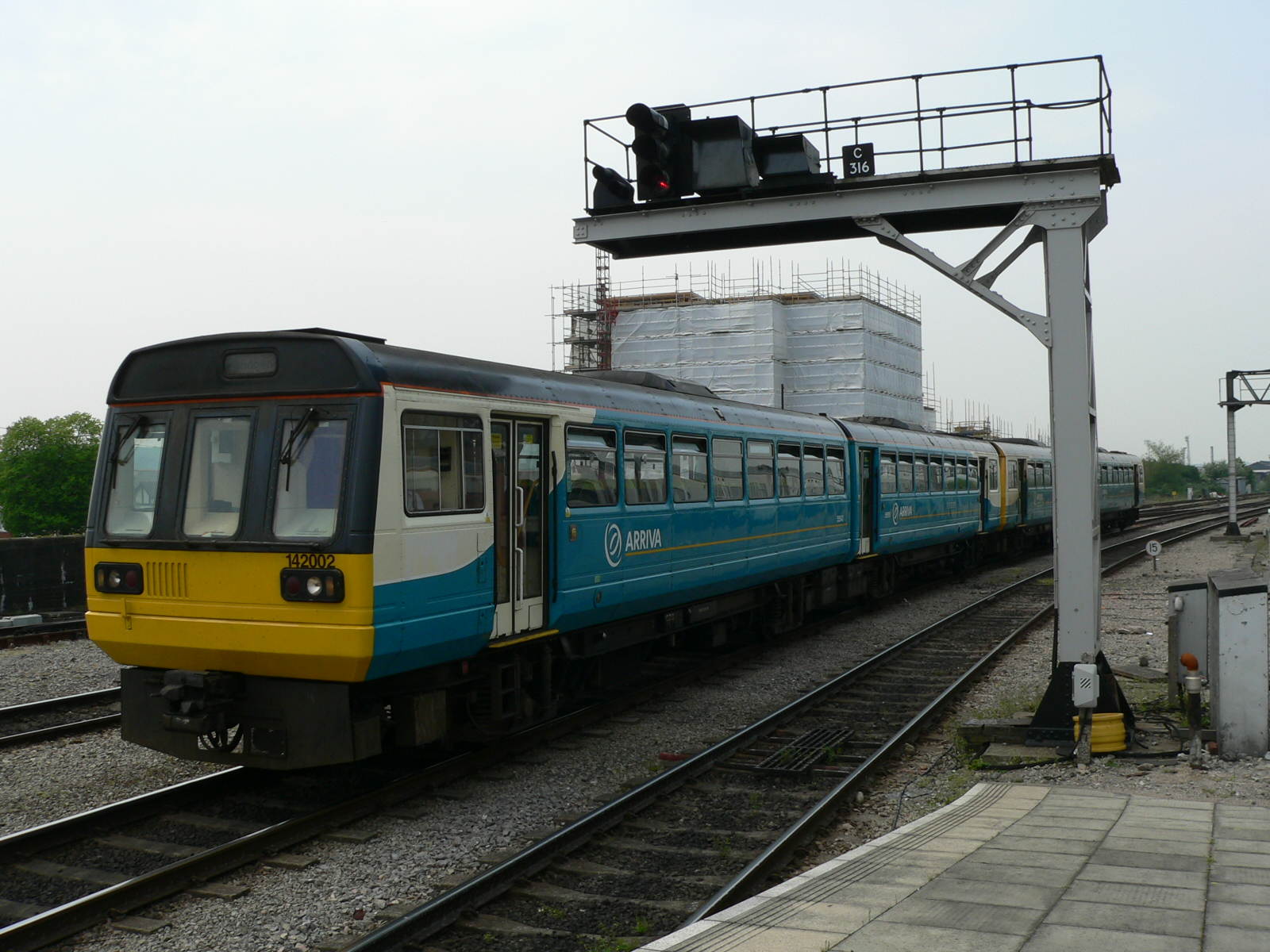 Arriva Trains Wales Class 142 railbus DMU 142002 and another, unidentified, Class 142 approach Cardiff Central from the west with a Valley Lines service. The route indicator is displaying "Bridgend", which is west of Cardiff, so it is probable that this service will terminate at Cardiff Central and that Bridgend is the destination of the next service.